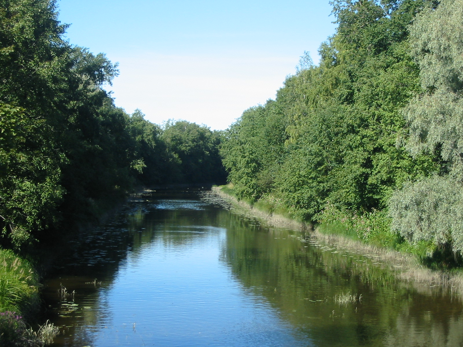 Kirkkojuopa, a distributary of Kokemäenjoki, in Ulvila, Finland